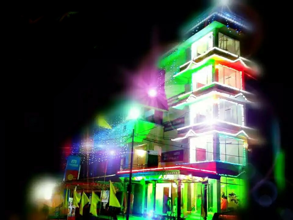 night view of Angamoozhy sndp